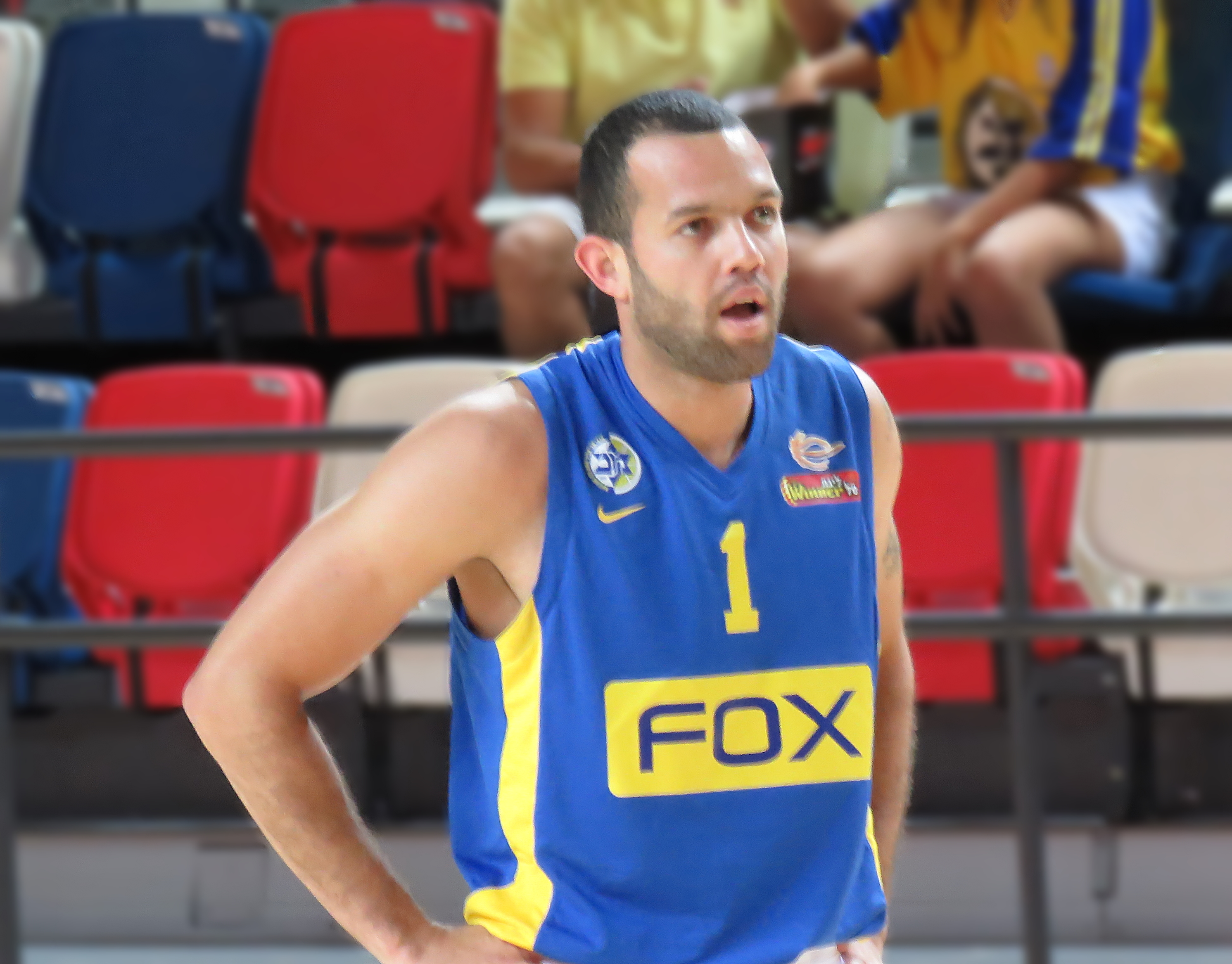 Maccabi Rishon LeZion vs. Maccabi Tel Aviv B.C., 26 September, 2015